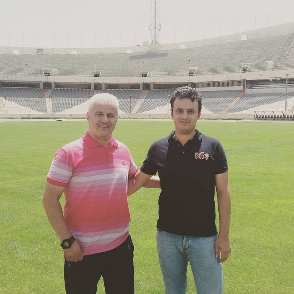 مستند فرشاد پیوس